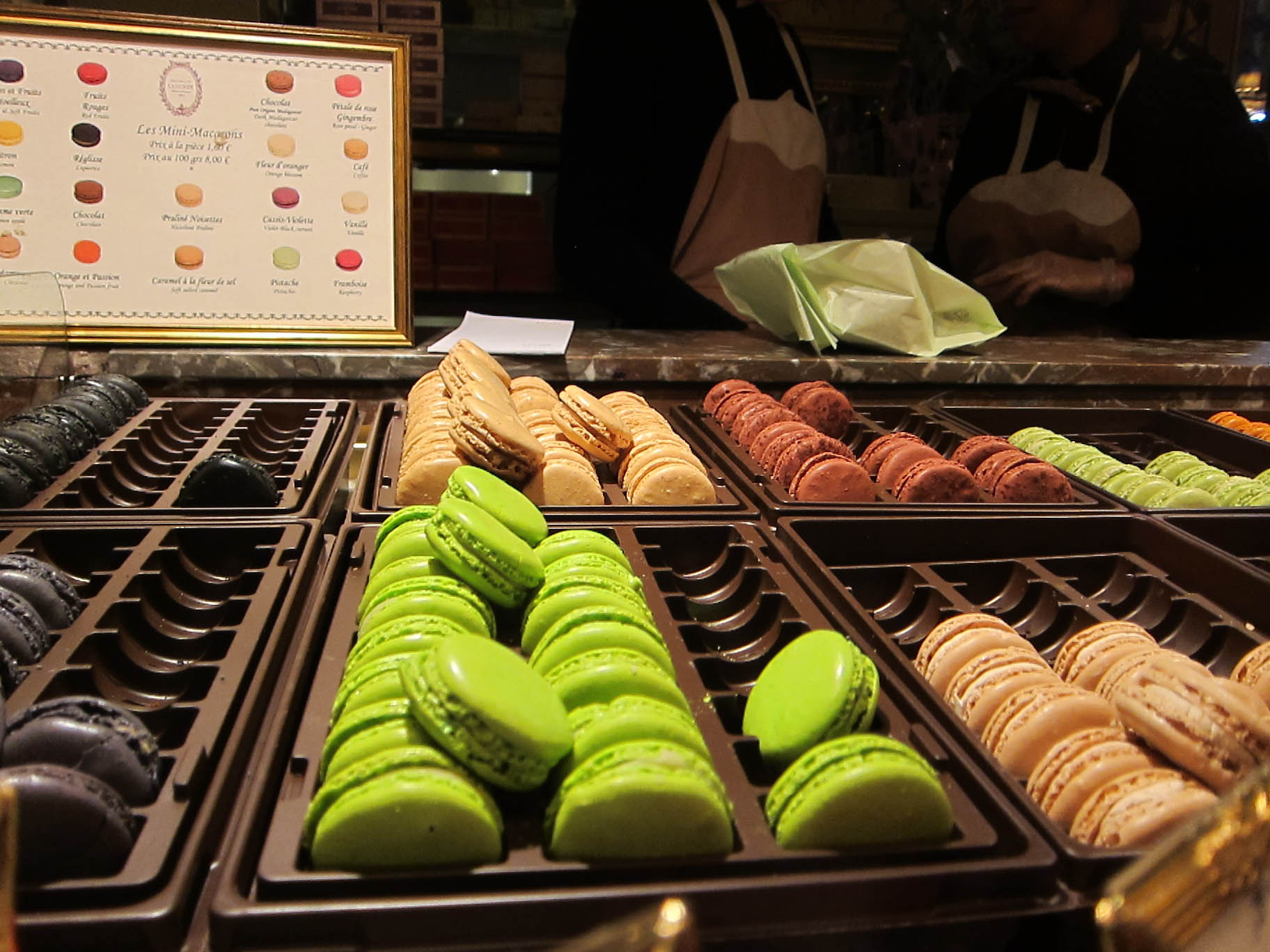 Macarons from Laduree, Paris 2010.